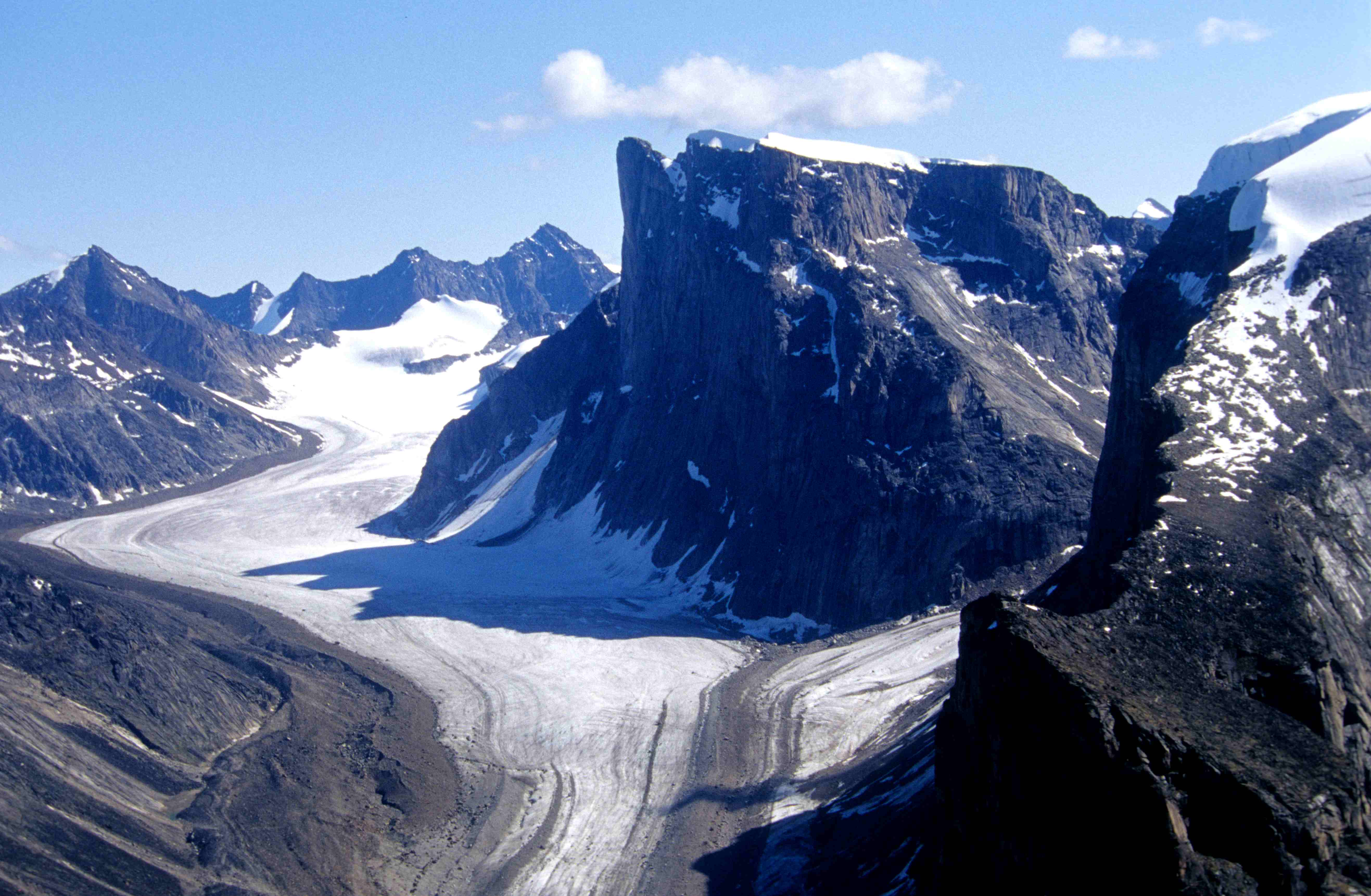 Auyuittuq National Park: Characteristic rock formations und glaciers